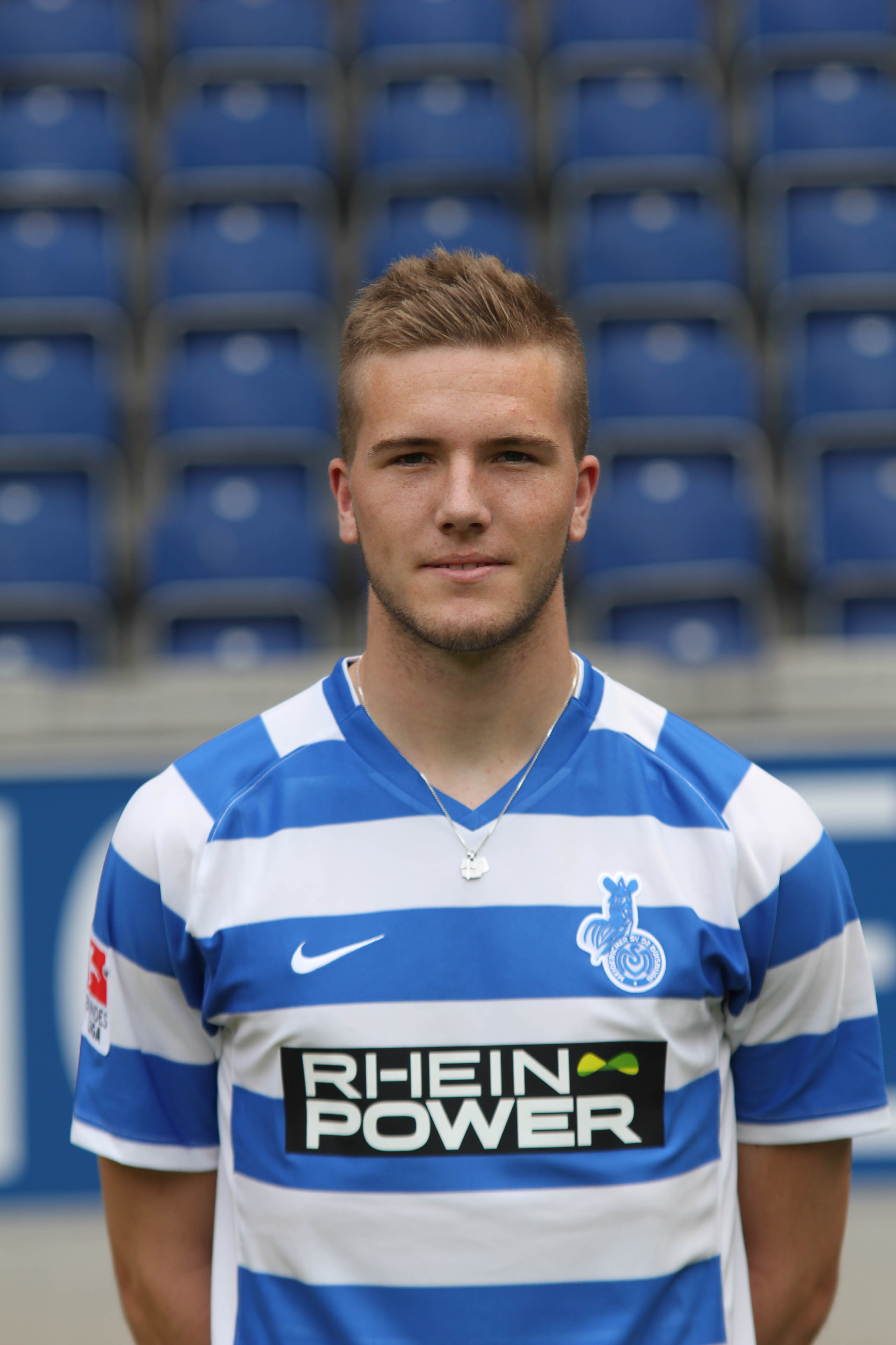 German footballer André Hoffmann, MSV Duisburg